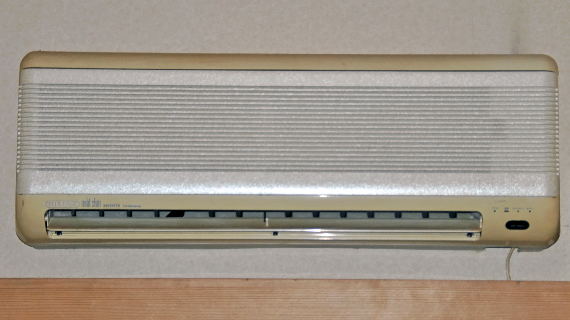 Air_conditioner